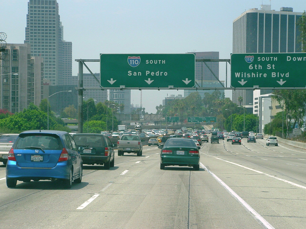 Southbound Harbor Freeway (110) road sign gantry — in Downtown Los Angeles.